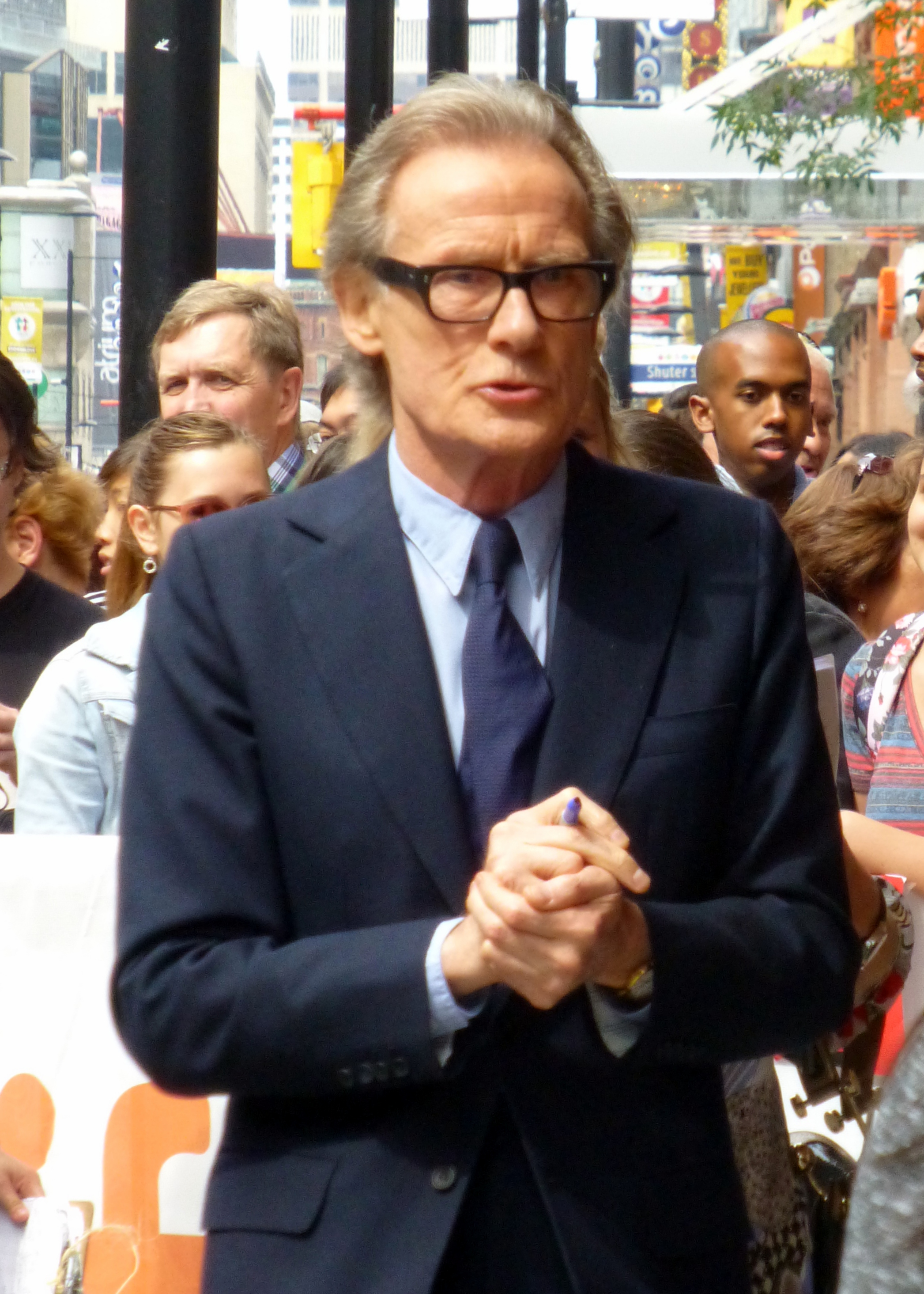 Bill Nighy at the premiere of Pride, 2014 Toronto Film Festival